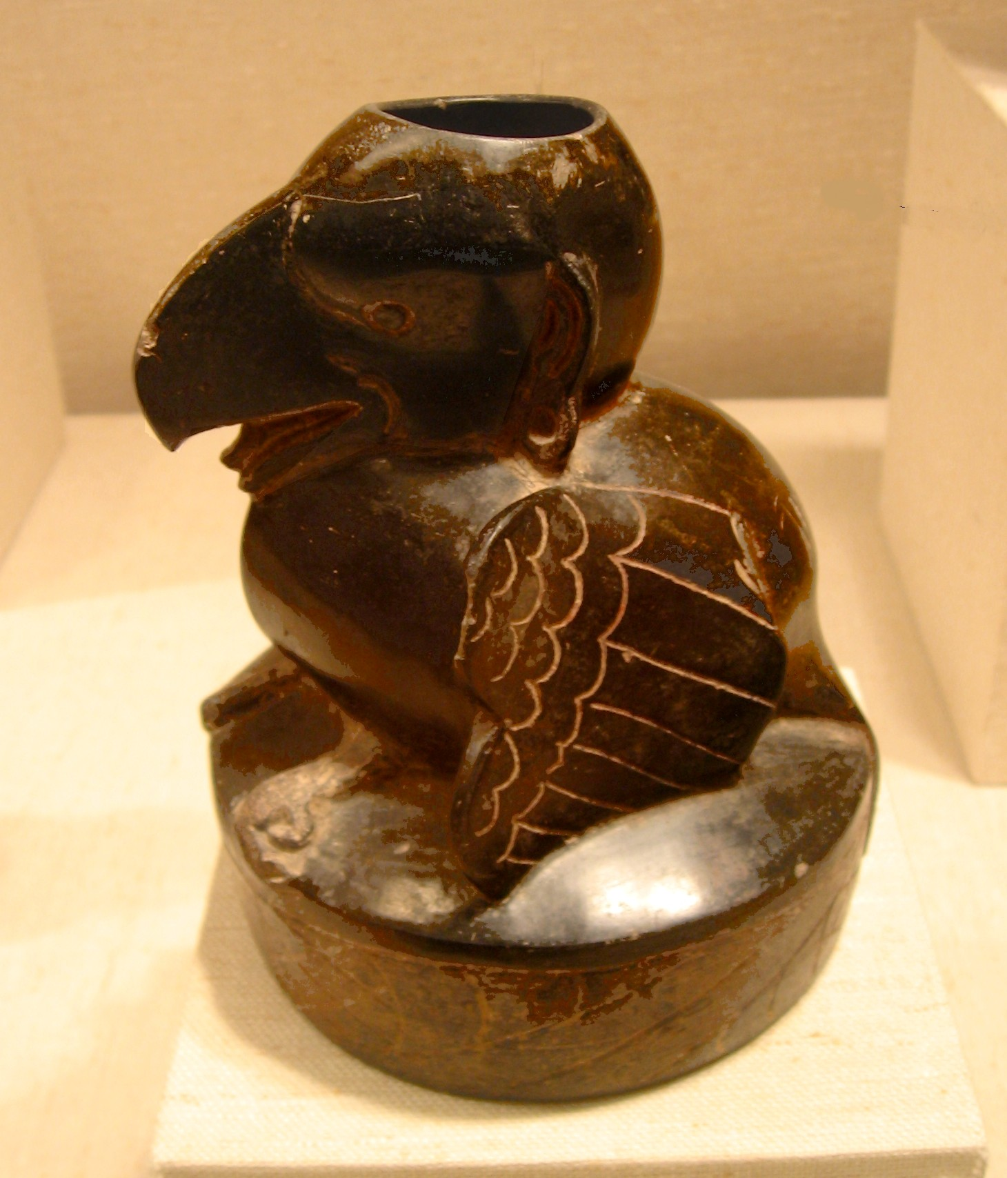 Ceramic Olmec Bird Vessel with traces of red ocher. 12th–9th century B.C. Height 6.5 (16.5 cm). Photo by Madman.